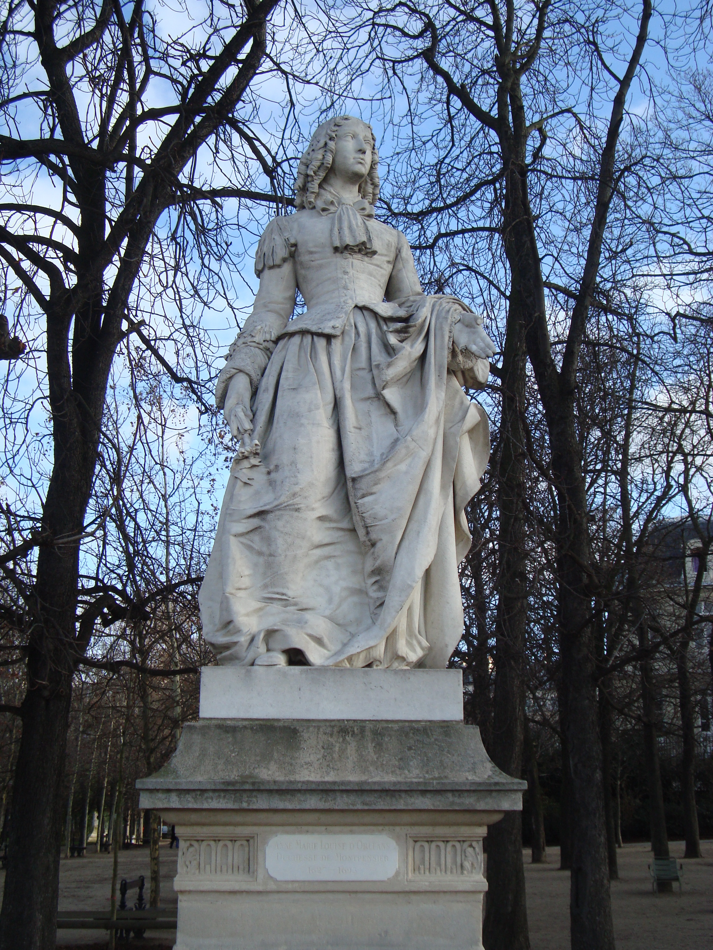 Statue of Anne-Marie Louise d'Orléans by Camille Demesmay in the Jardin du Luxembourg, Paris